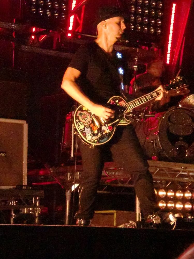 Ace-skunkl anansie in rome by paride